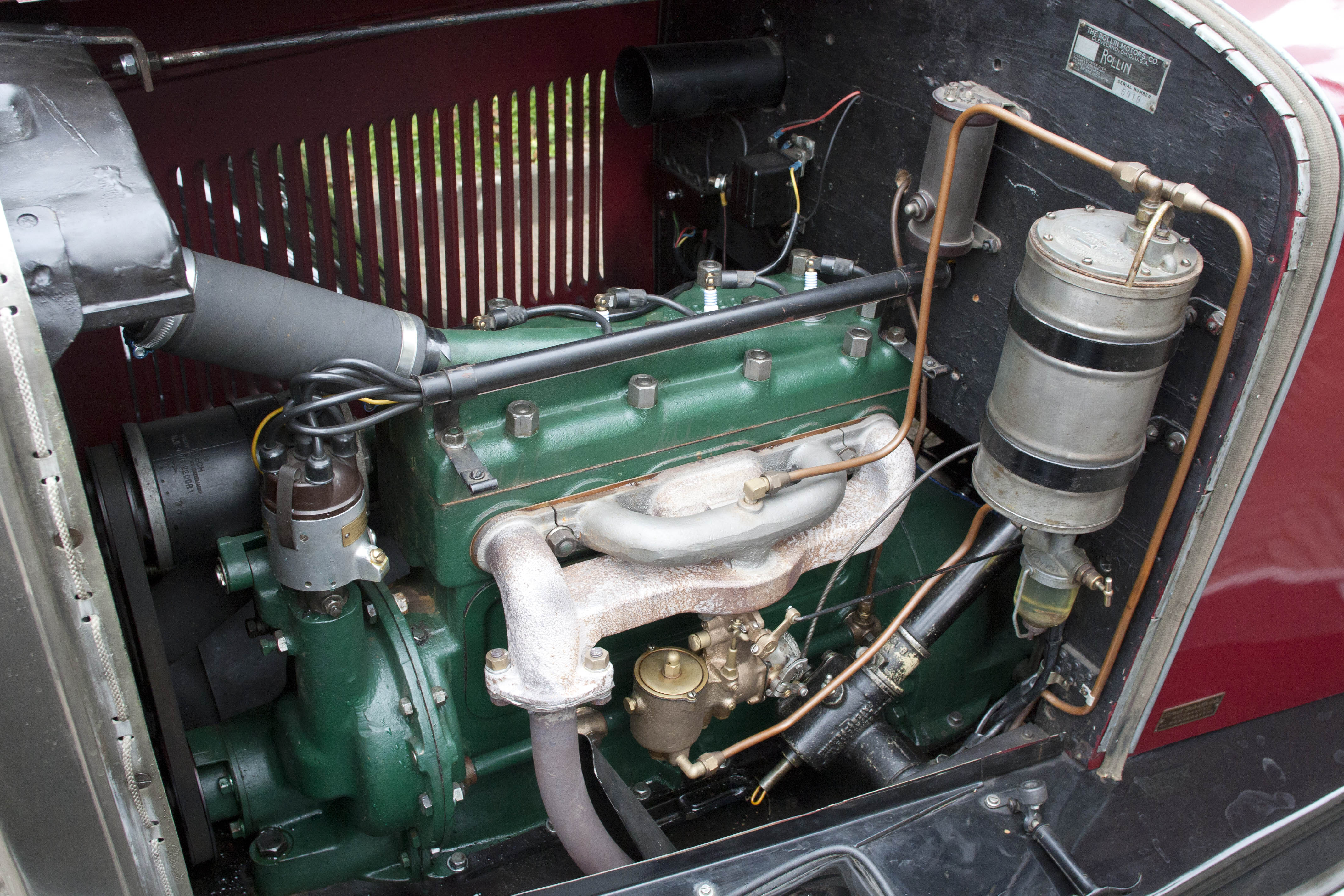 engine from Rollin oldtimer